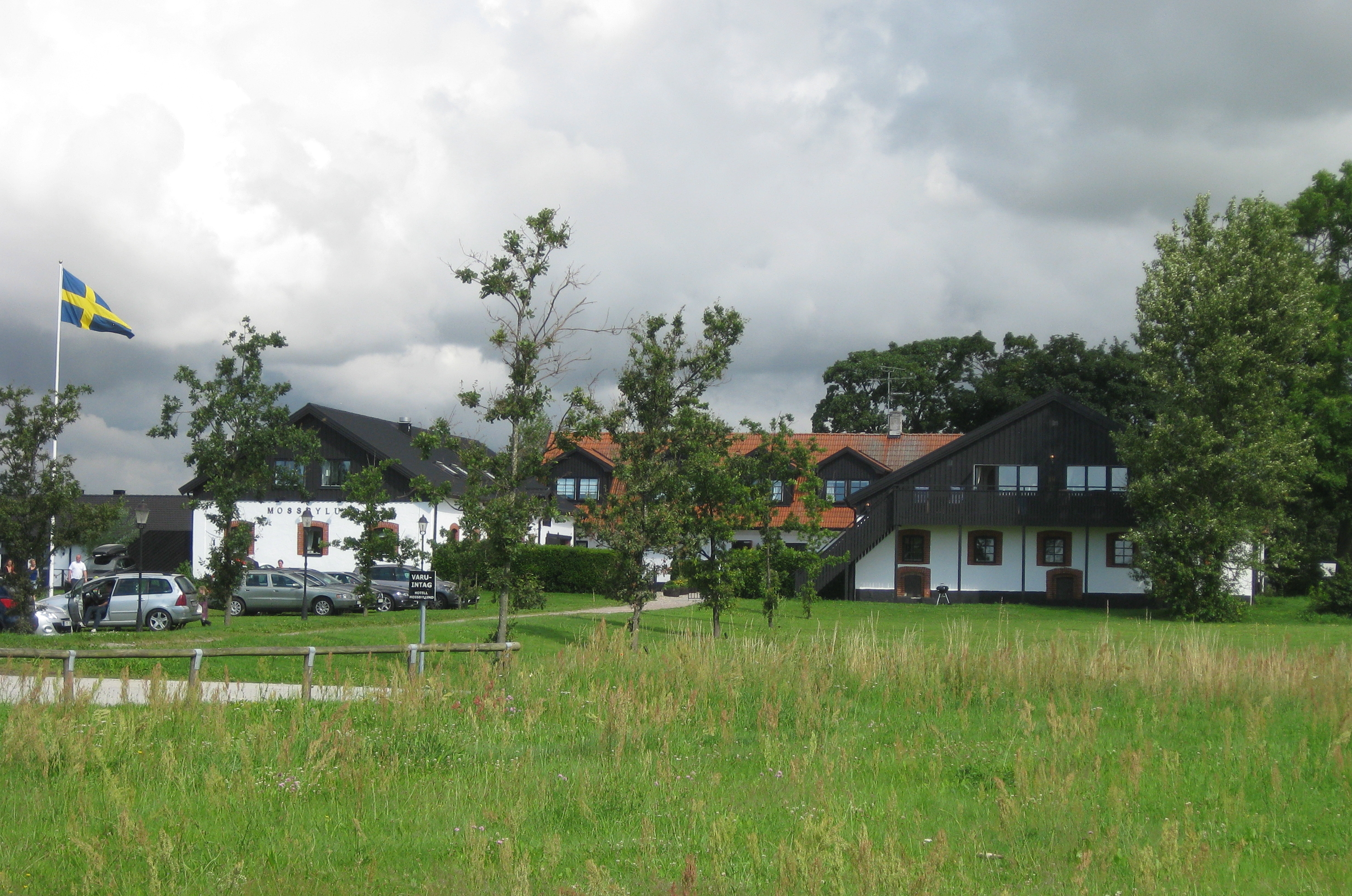 The hotel Mossbylund in Scania, Sweden